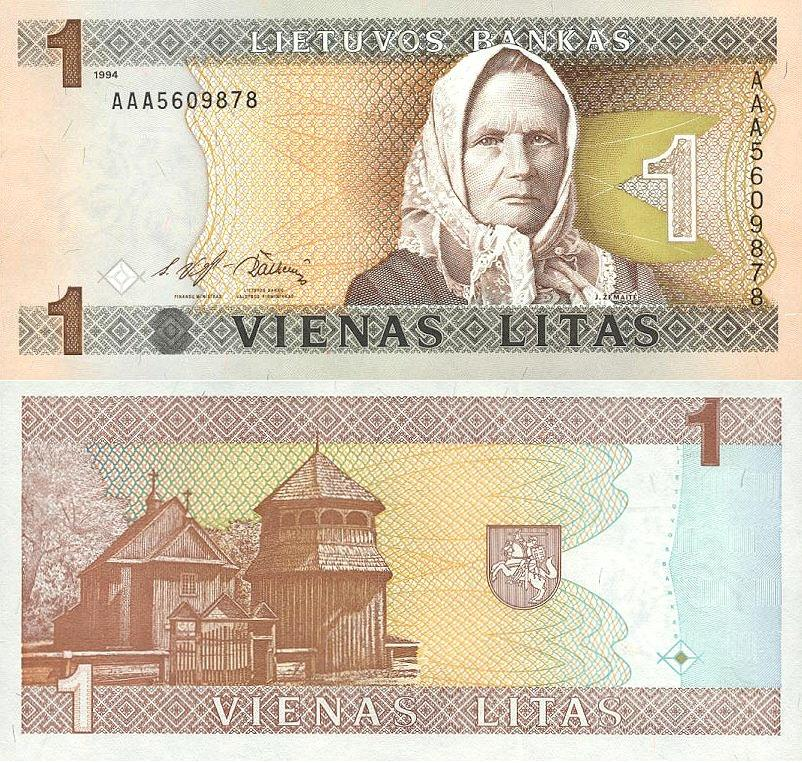 1 litas banknote. Released in 1994.